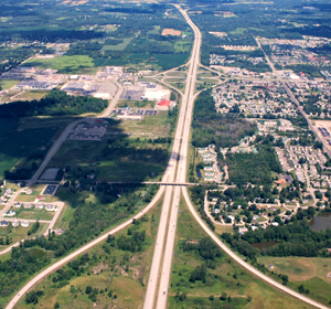 Looking north from the interchange between Interstate 96/Interstate 69 and Interstate 496 west of Lansing, Michigan; the interchange with M-43 is in the center and the split between I-69 and I-96 is at the top.